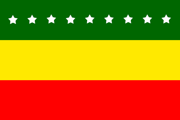 Flag of Piñas canton, in Ecuador